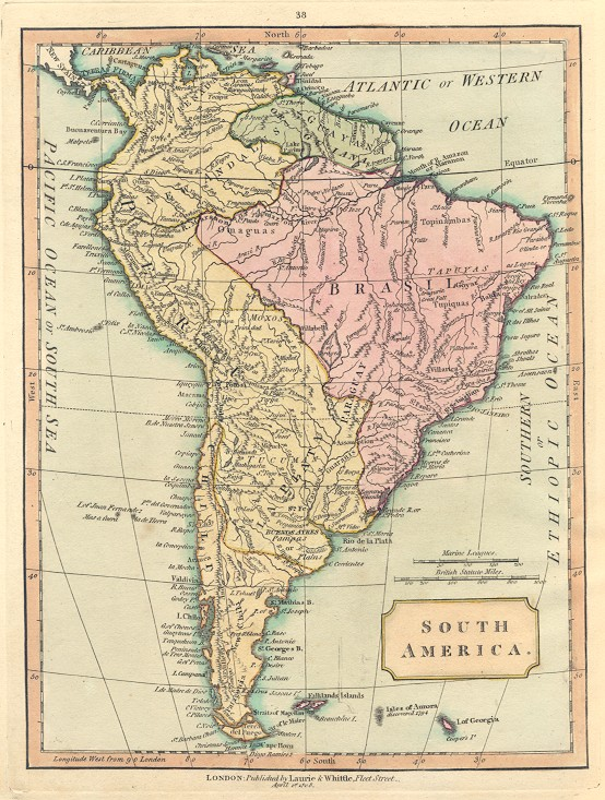 antique map of South America from 1808